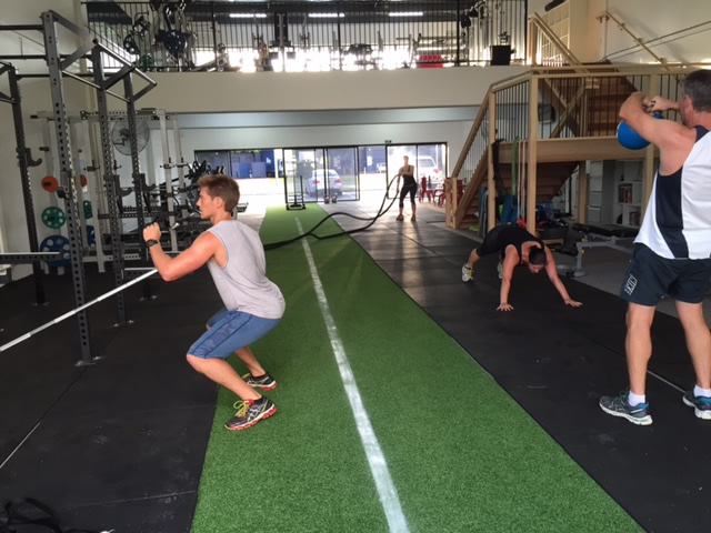 Small group fitness sessions bundall